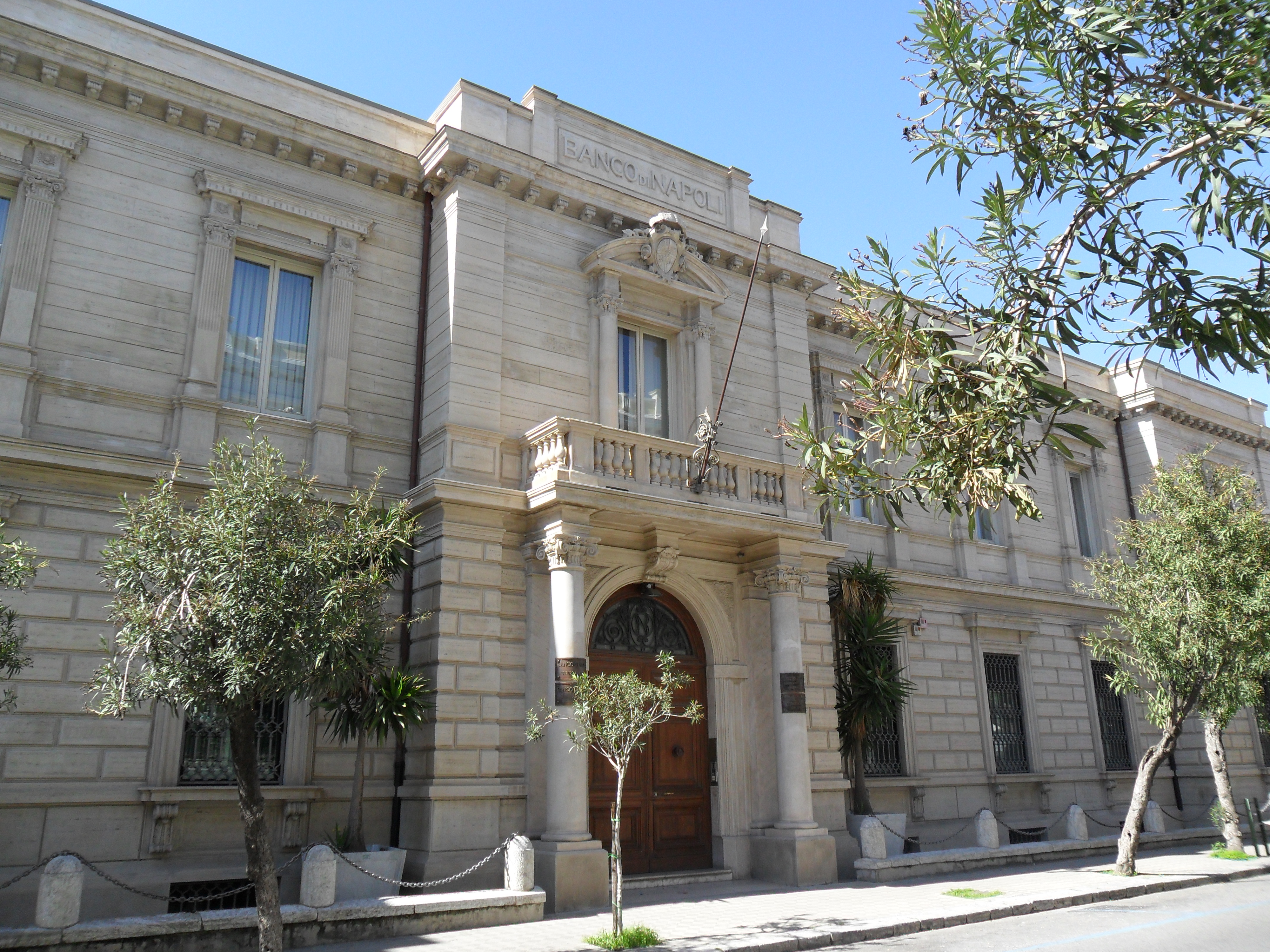 Palace of Neaples'Bank in reggio